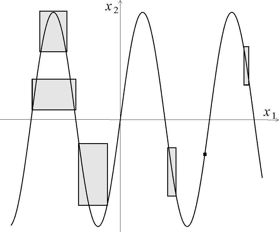 Boxes after contractions